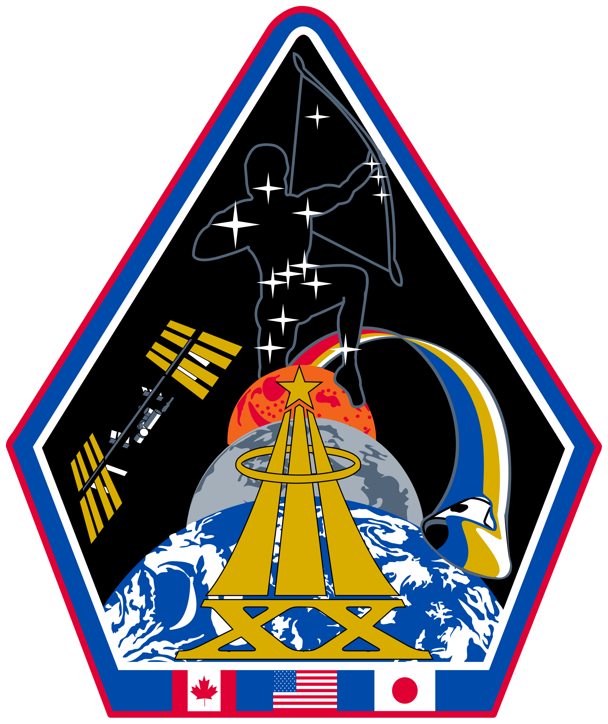 The insignia for NASA's 20th group of astronaut trainees, otherwise known as "The Chumps".